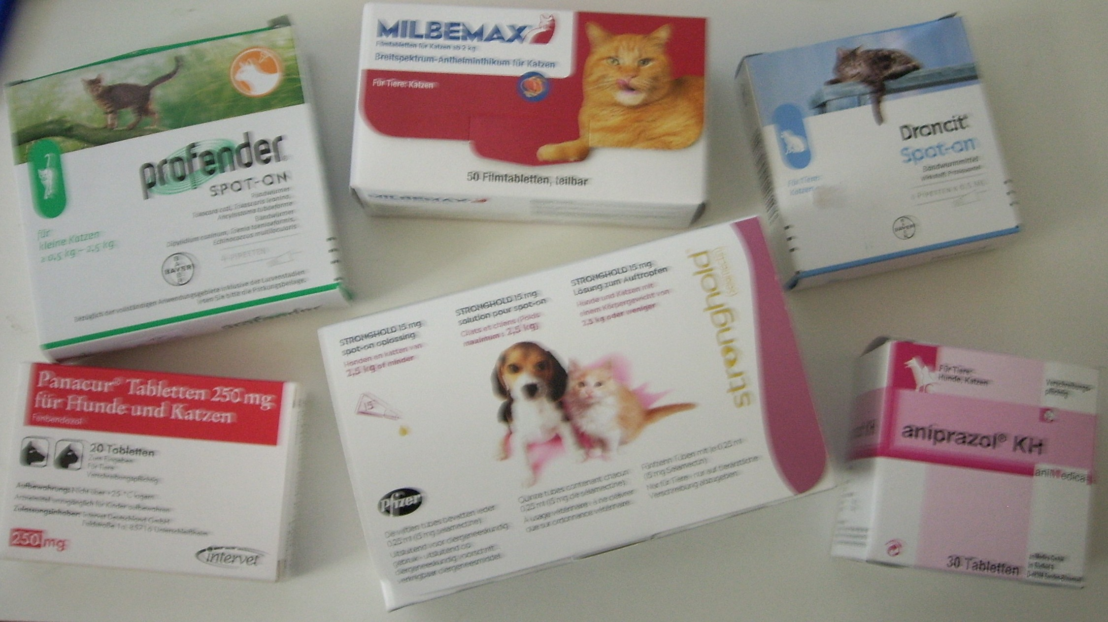 several anthelminths for cats